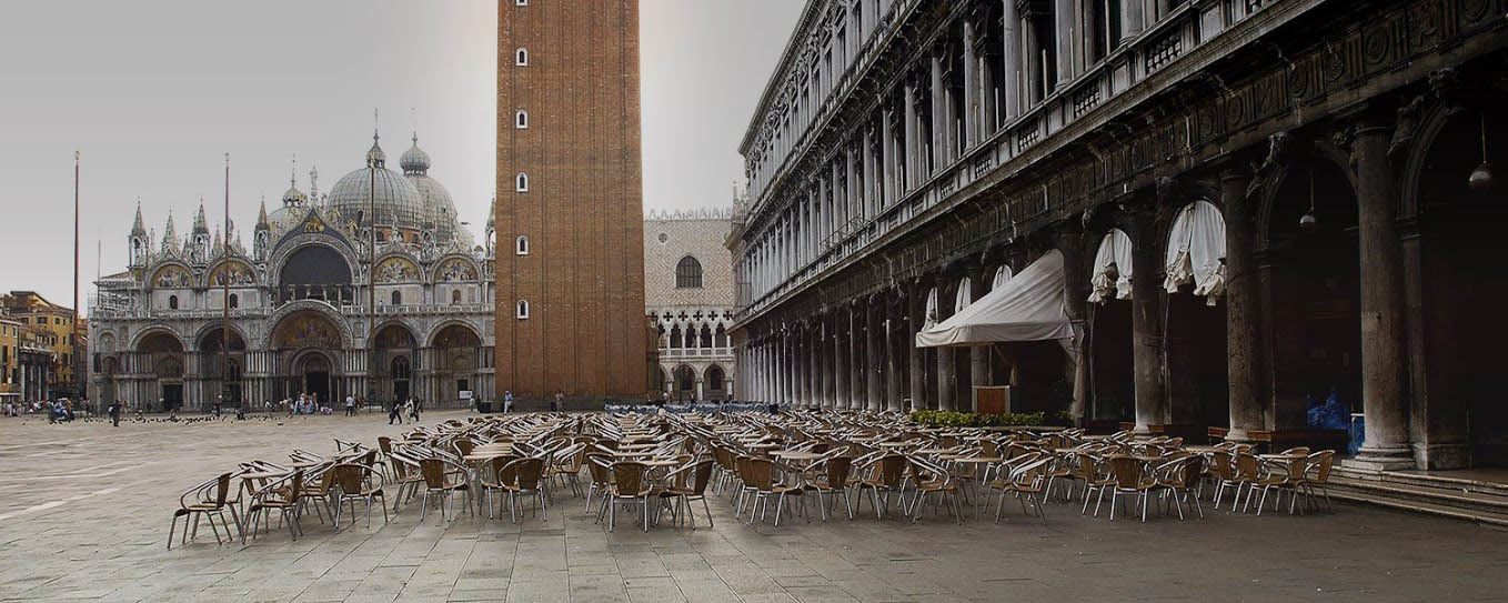 Il Caffè Florian in Piazza san Marco